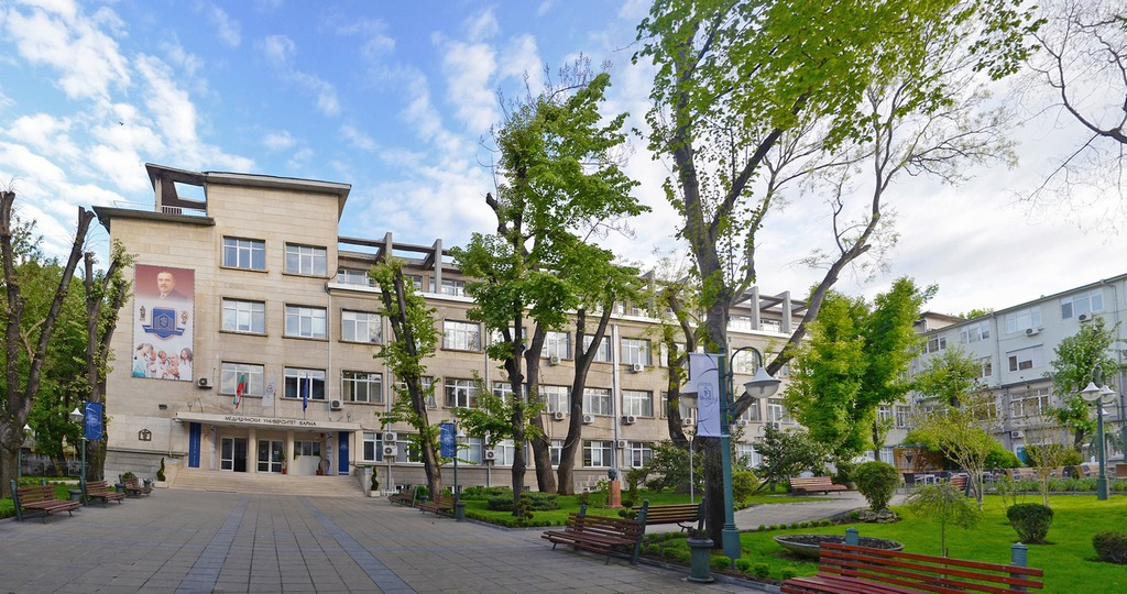 Rectorate Building, Medical University of Varna